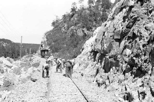 From the construction of the norwegian railroad Sørlandsbanen, probably Marnardal, Vest-Agder